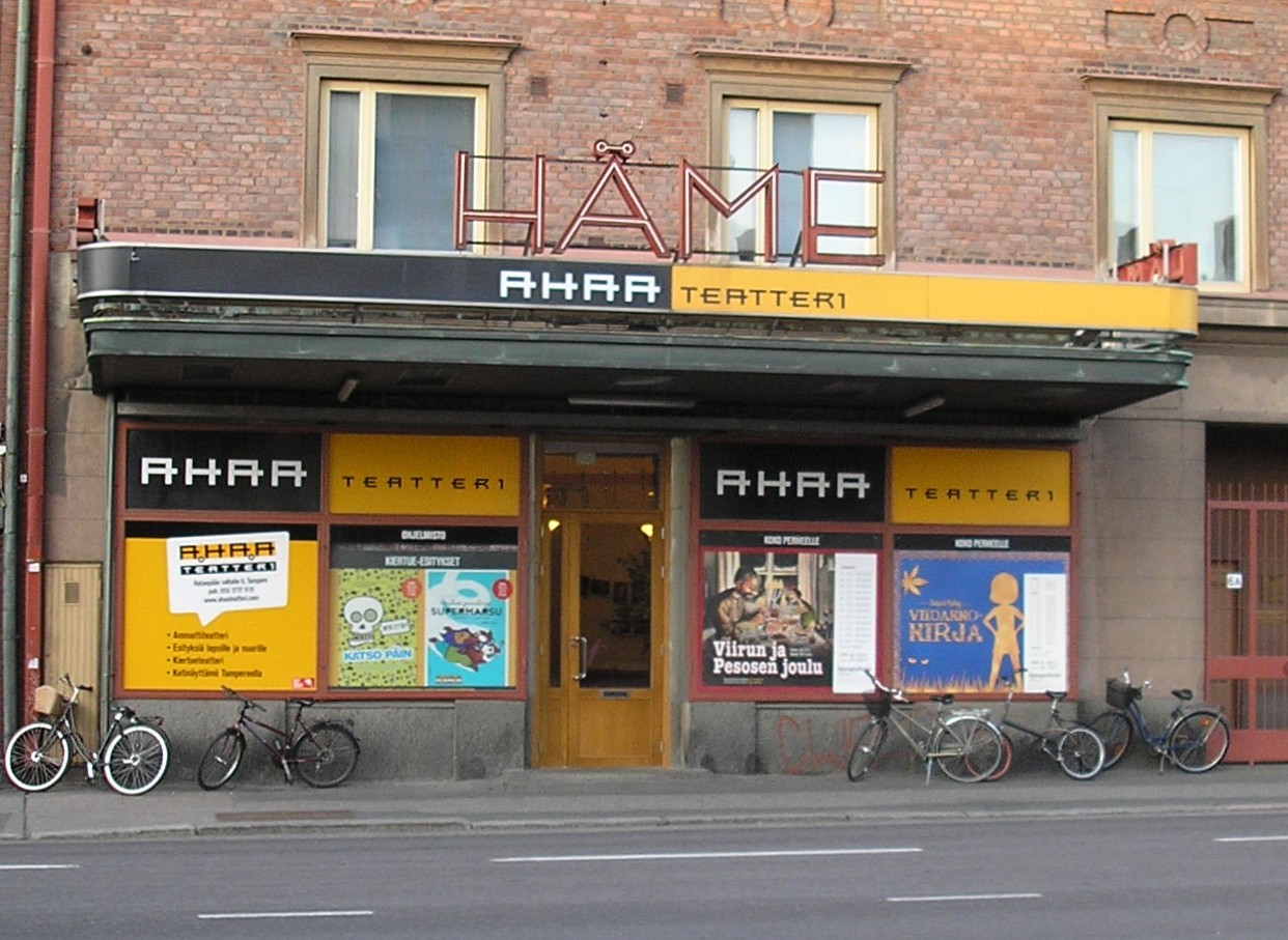 Entrance to Ahaa Teatteri in Tampere, Finland.